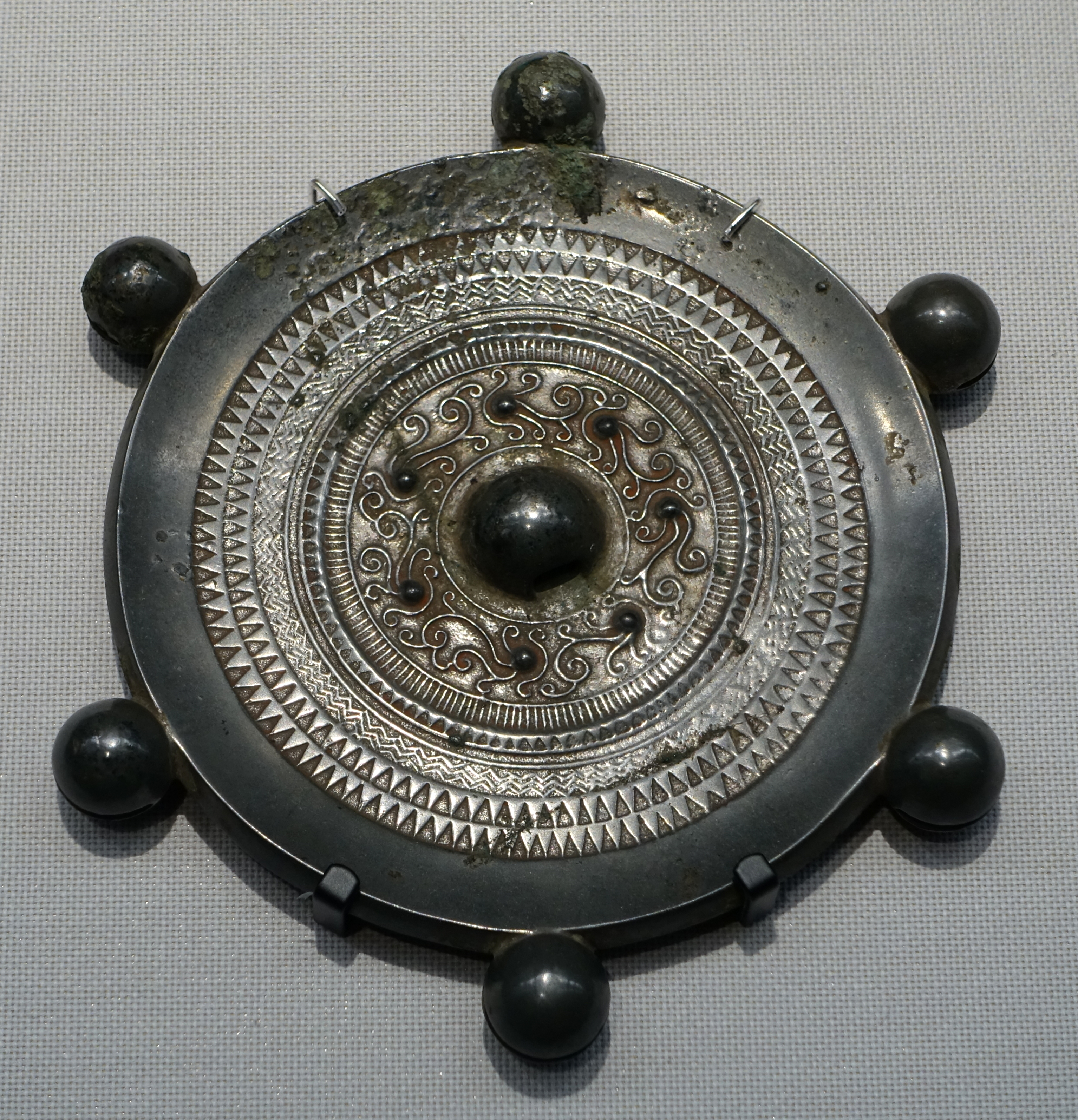 Exhibit in the Tokyo National Museum - Tokyo, Japan.